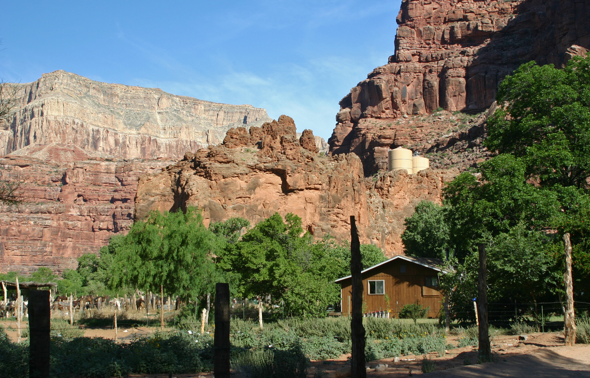 Supai water tanks above the village. The village has a tremendous supply of water that flows through the canyon, but the tanks on the cliffs above the village are needed to provide water pressure for plumbing. When the day is hot and the tanks are in the sun, there is no cold running water.